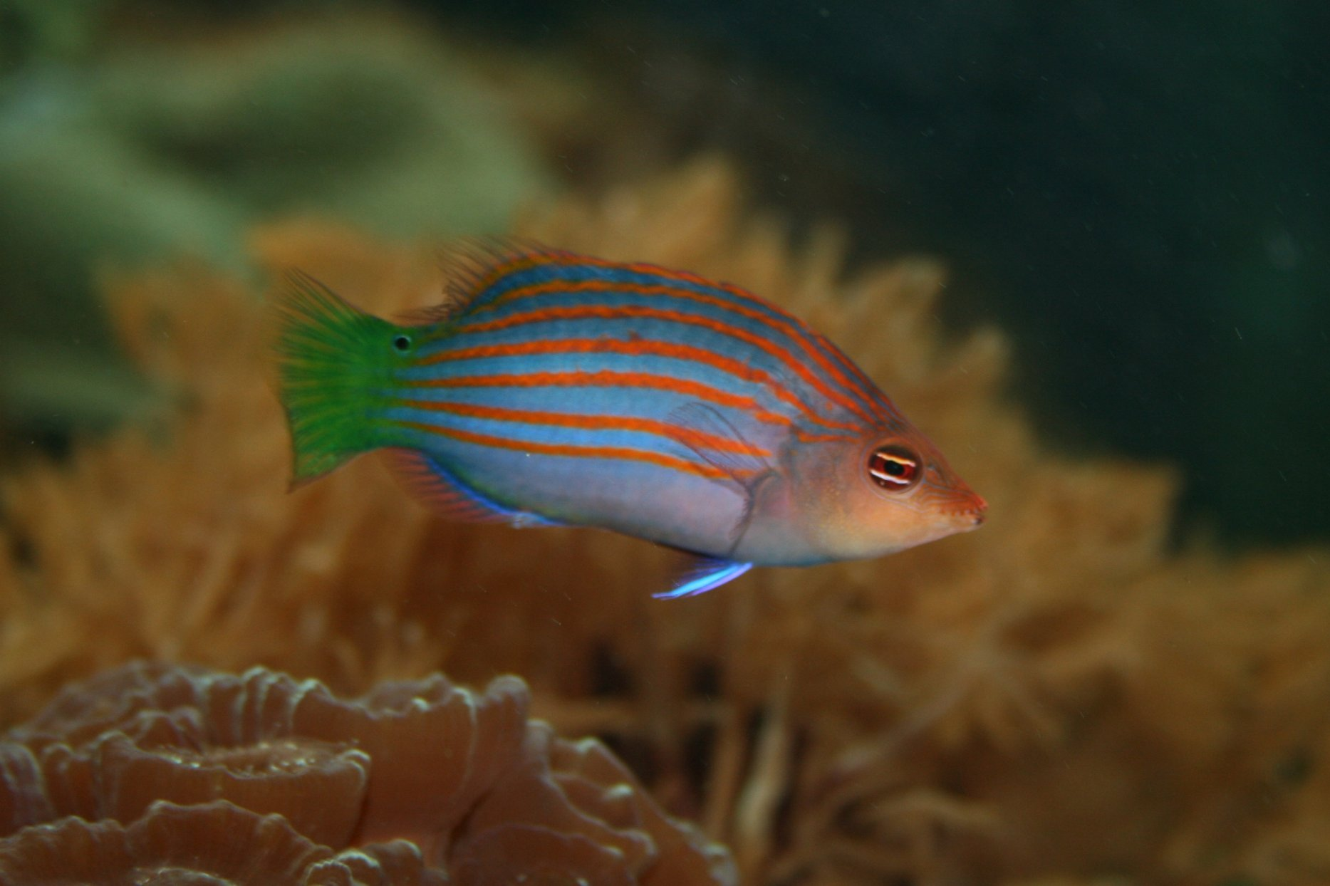 This is a Six-Line Wrasse (Pseudocheilinus hexataenia) in an aquarium at the Riverbanks Zoo & Garden in Columbia, SC.